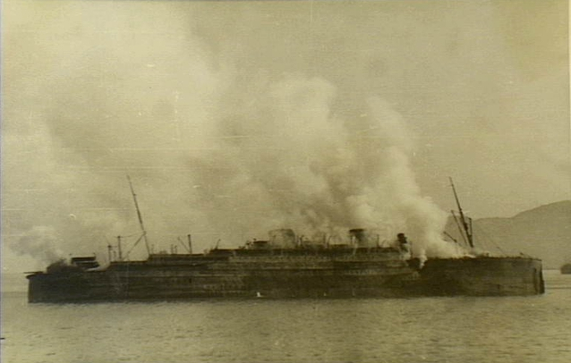 SUEZ BAY. 1941-07-14. PORT SIDE VIEW OF THE BRITISH TRANSPORT GEORGIC, AGROUND AND ON FIRE, AFTER A BOMB HIT FROM A DIVE BOMBER. As seen from the deck of HMAS Hobart, Port Tewfik, Egypt.